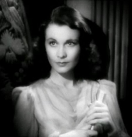 Cropped screenshot of Vivien Leigh from the trailer for the film Waterloo Bridge Related image : from the same section of the trailer as Image:Vivien Leigh in Waterloo Bridge trailer 2.jpg